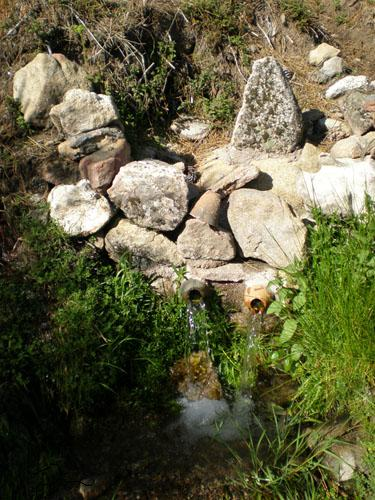 Fuente Casavieja 2